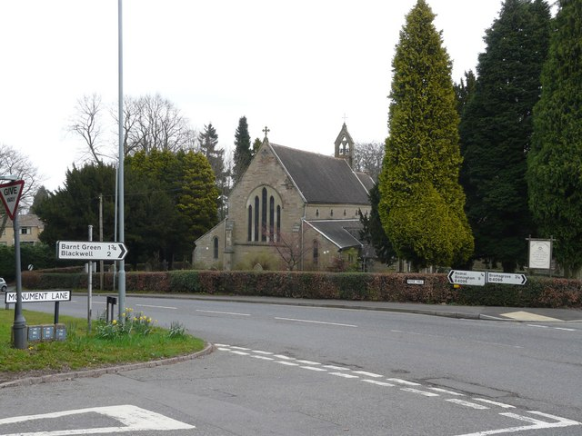 Lickey Holy Trinity Church at the junction with Rose Hill and Monument Lane